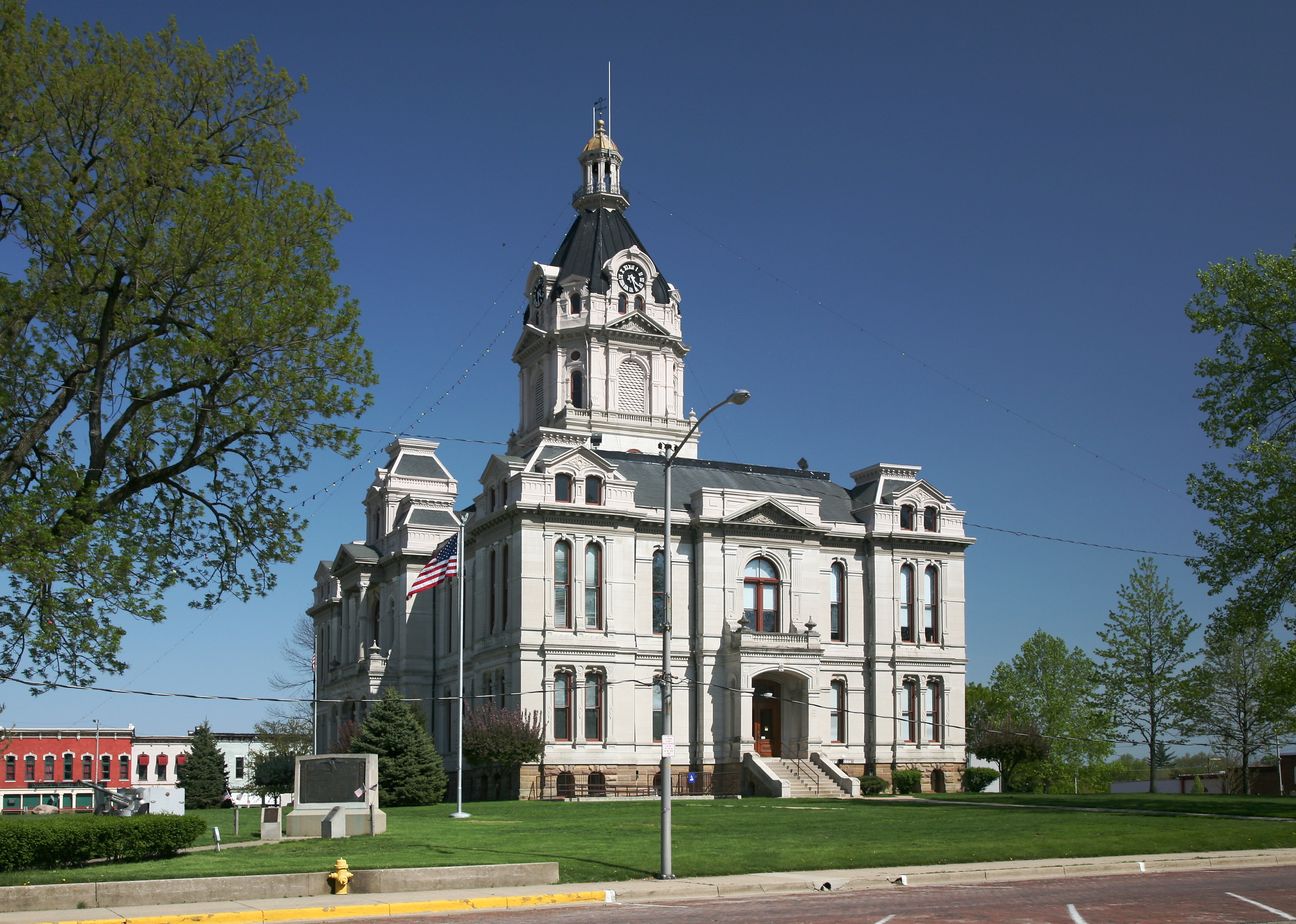 County Court House in Rockville, Indiana